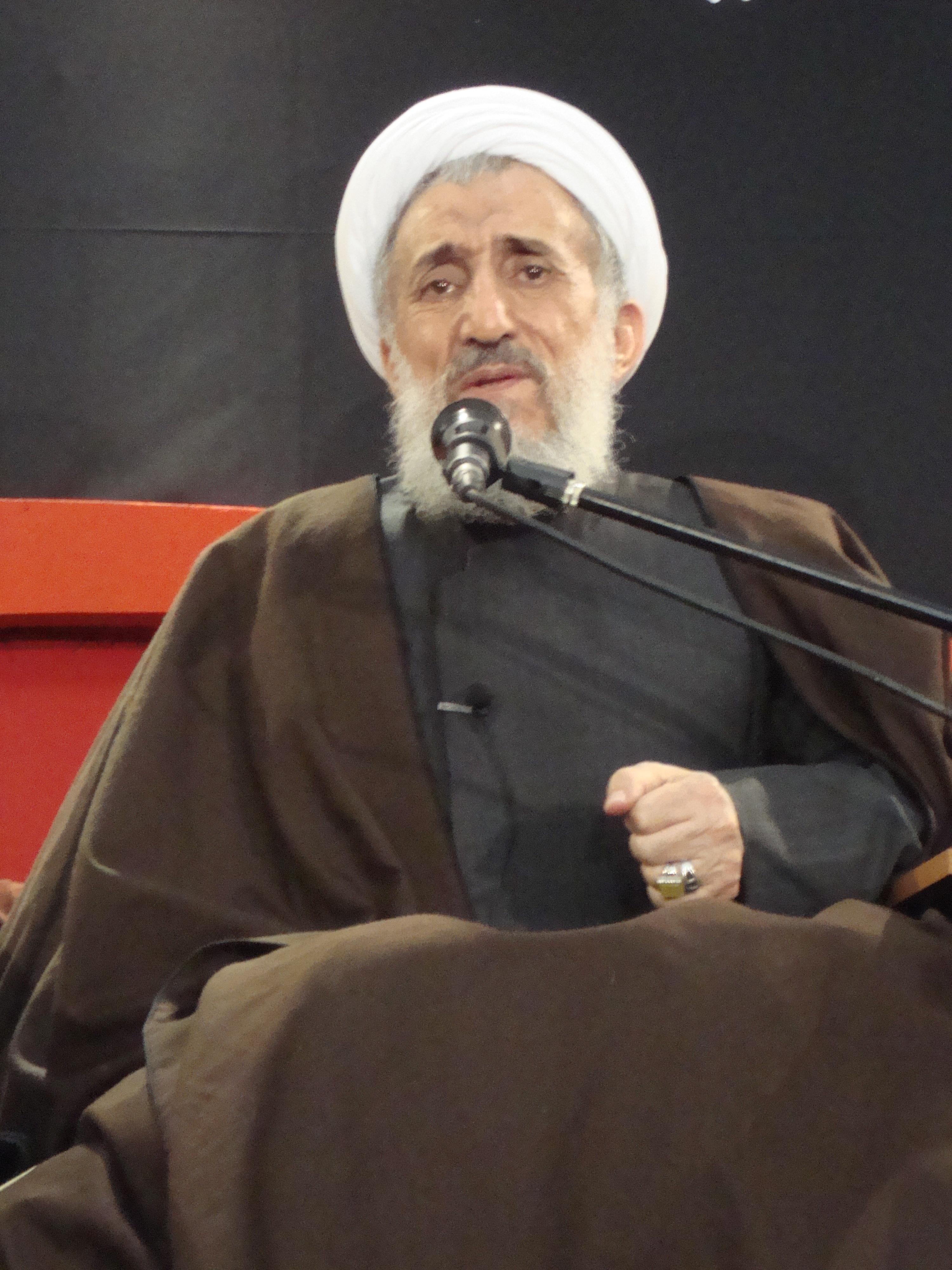 Kazem Seddiqi, the interim Friday Prayer Leader for Tehran, gives a speech in IUST mosques on Muharram 8th night.